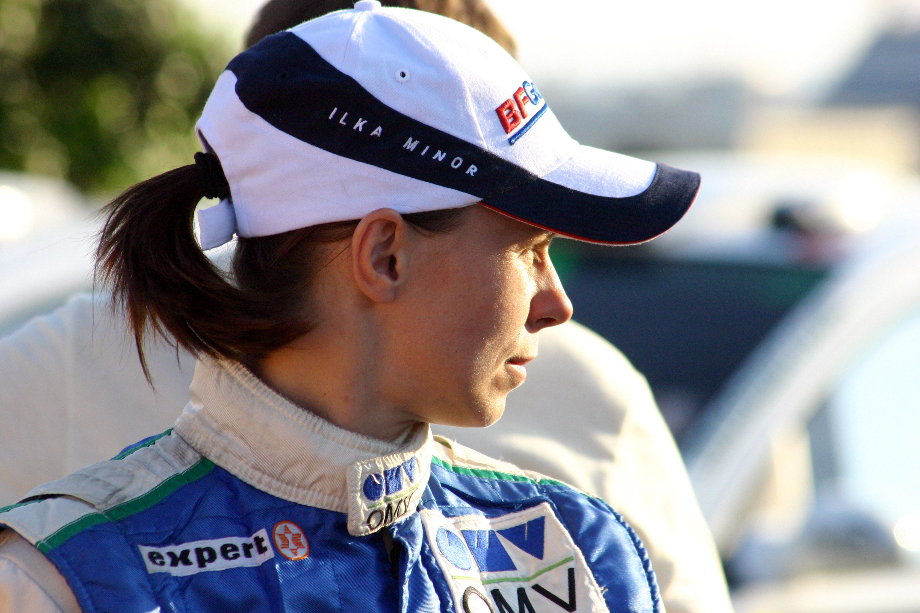 Ilka Minor, co-driver for Manfred Stohl, at the closing ceremony of the 2006 Cyprus Rally.